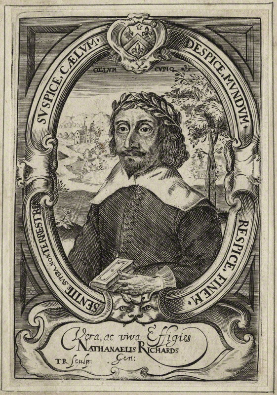 Portrait of Nathanael Richards (fl. 1630–1654), English dramatist.